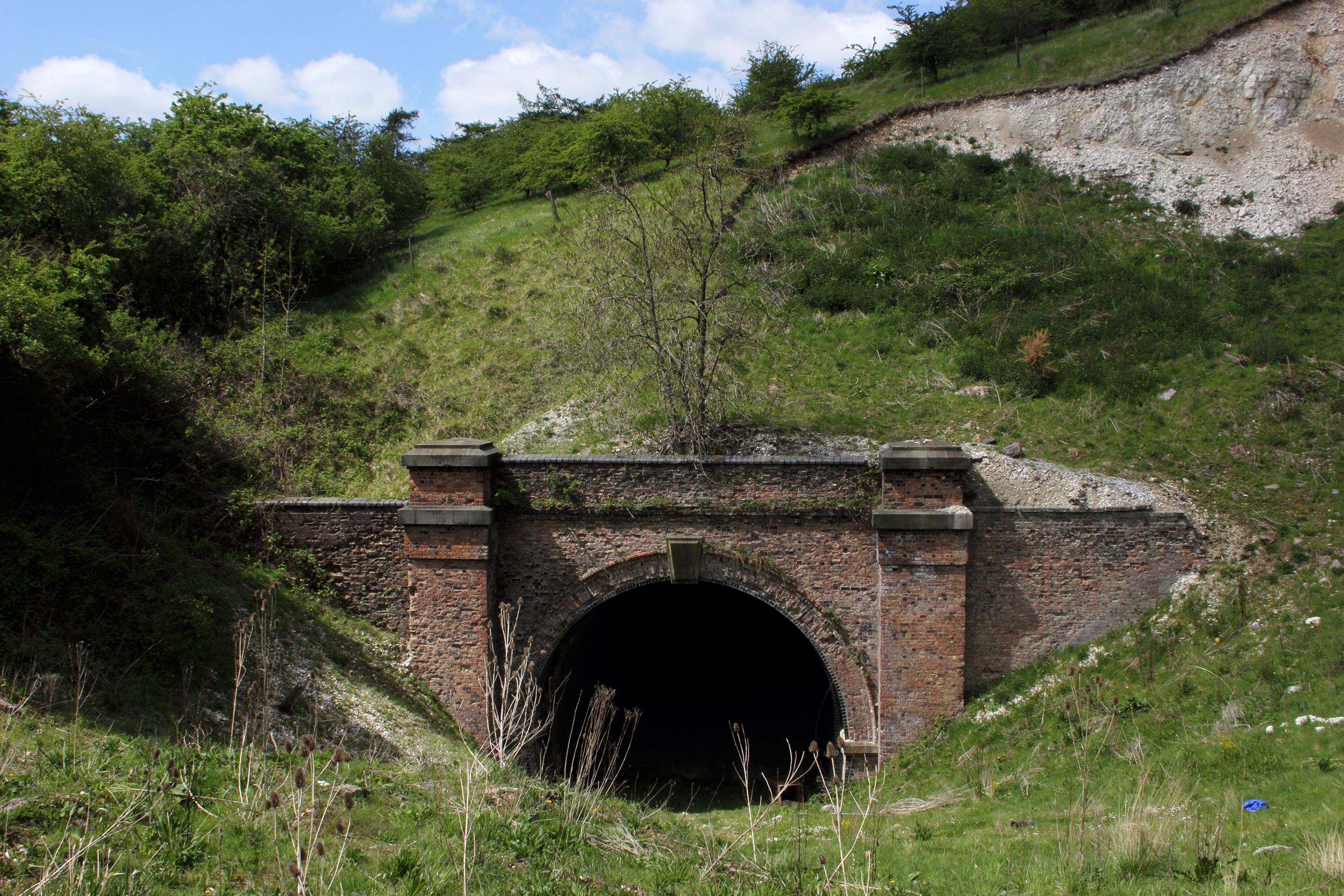 Sugar Loaf Tunnel, Low Hunsley, East Riding of Yorkshire, England.